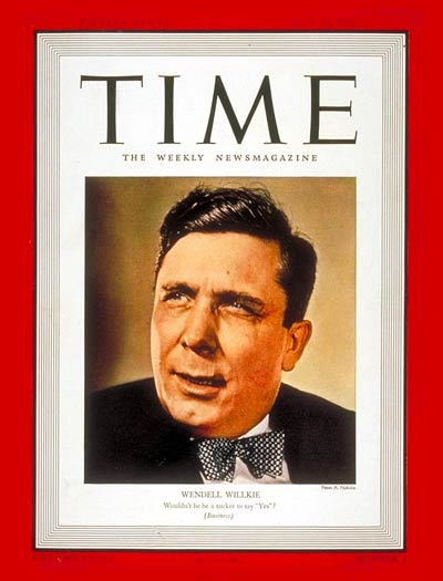 Republican politician Wendell L. Willkie, one of the founders of Freedom House, on the cover of TIME Magazine issue of July 31, 1939.